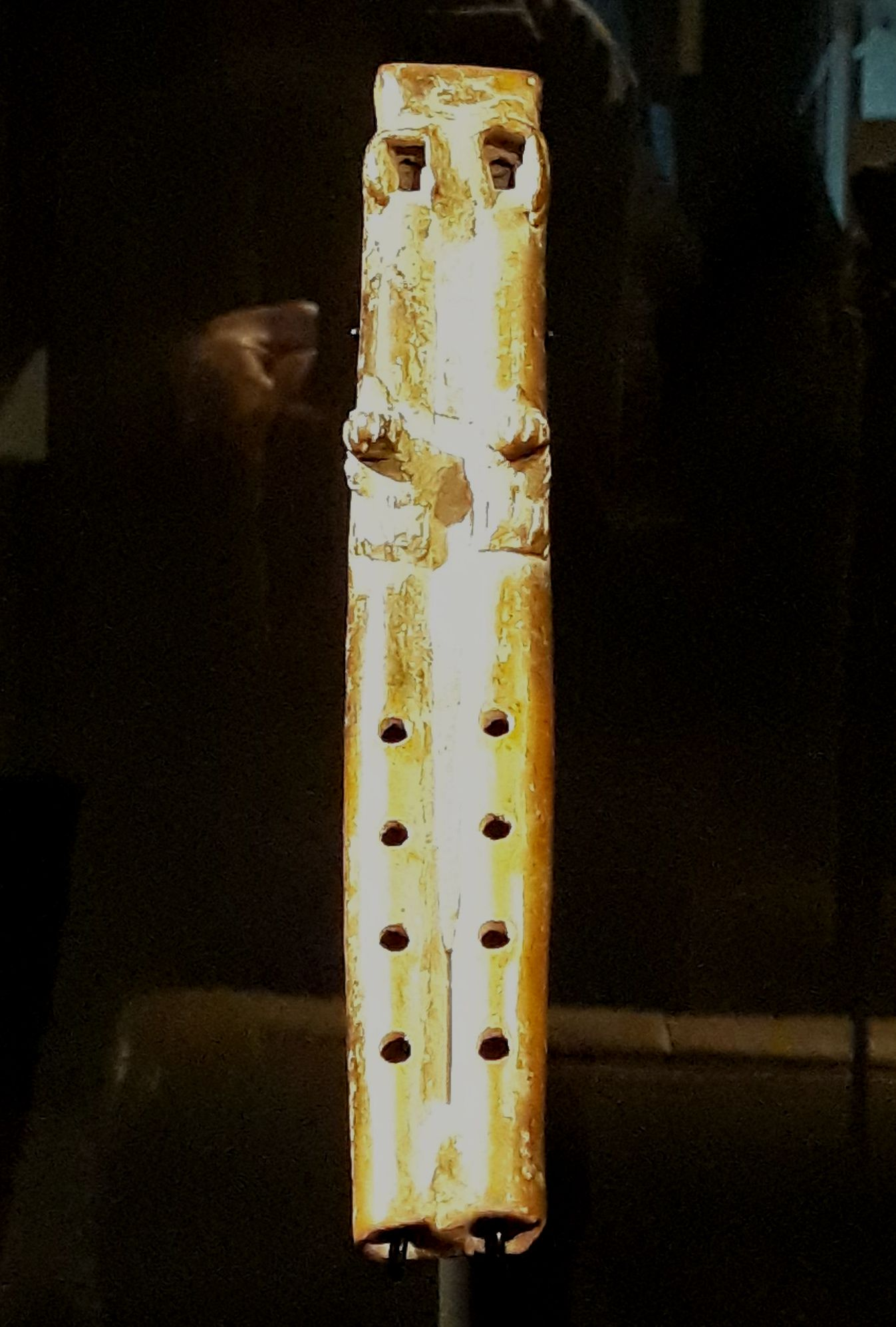 Aztec double flute, 14ct. - 1521, Museum Volkenkunde Leiden